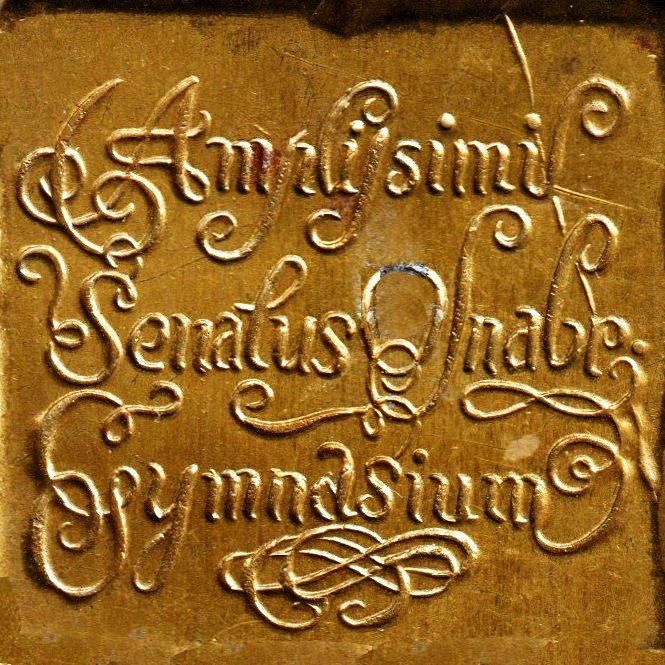 Old seal of Ratsgymnasium Osnabrück, Germany